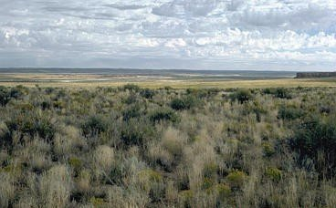 An image of the Chaco Canyon (New Mexico, United States) region's landscape; four ancient Chacoan roads are shown converging in the image. (Cropped version of Image:Path an.jpg.)